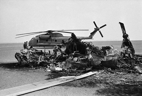 US burned helicopter in Operation Eagle Claw